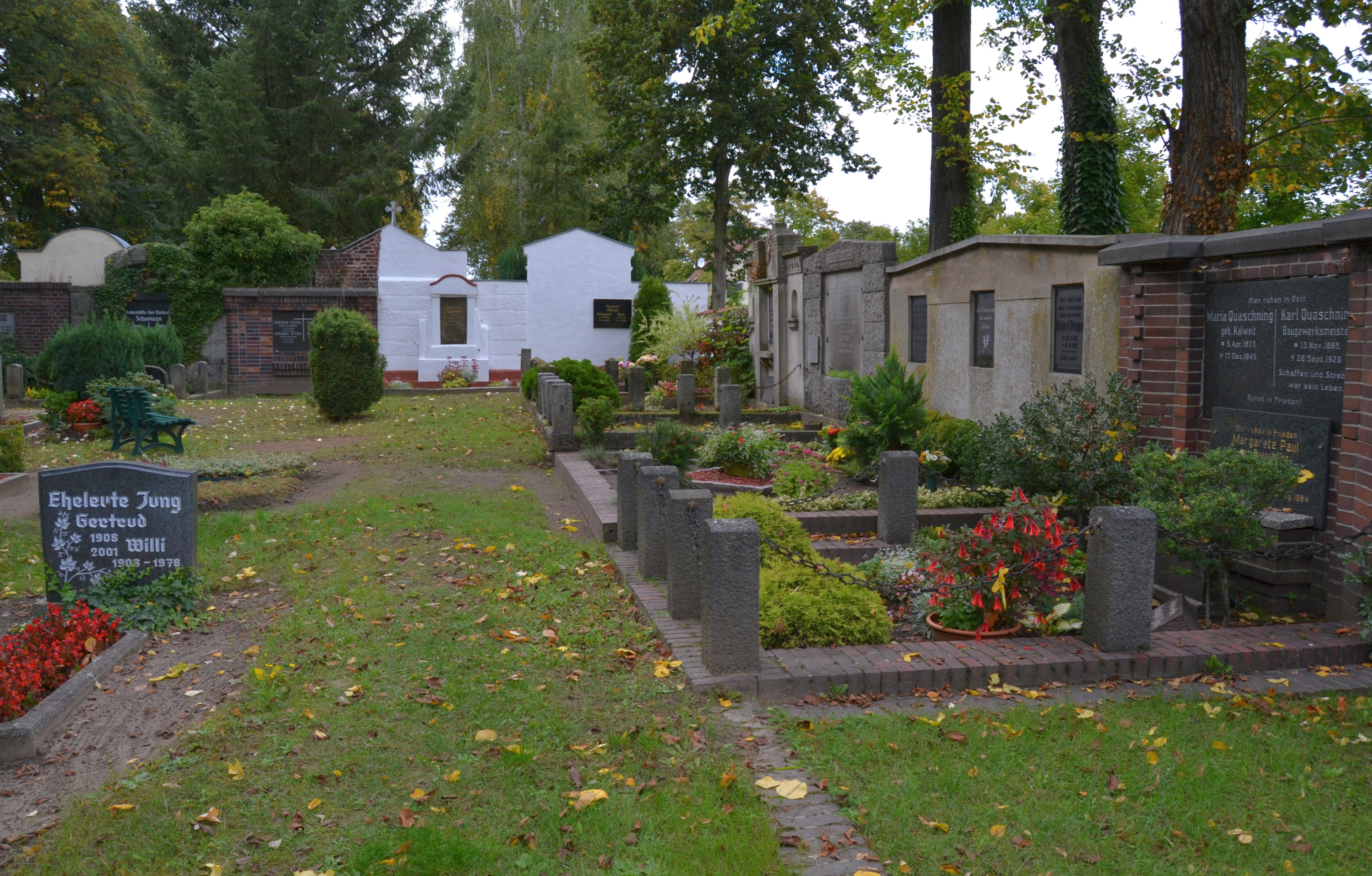 Cemetery of Fredersdorf.